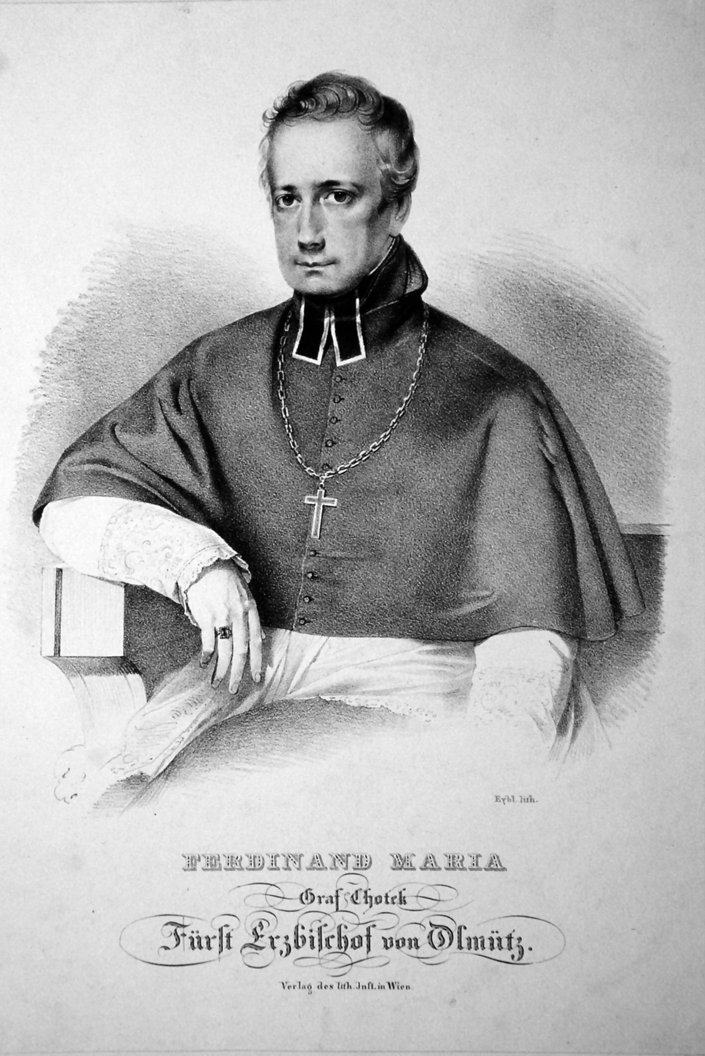 Litography of Ferdinand Maria Chotek